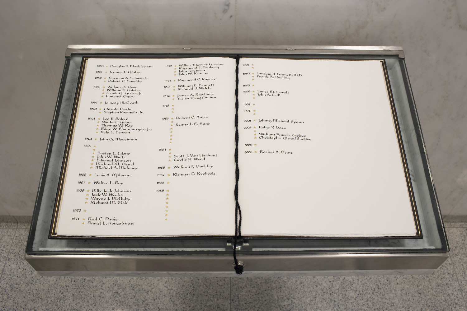 Book of Honor at the CIA Memorial Wall, Langley, Virginia.